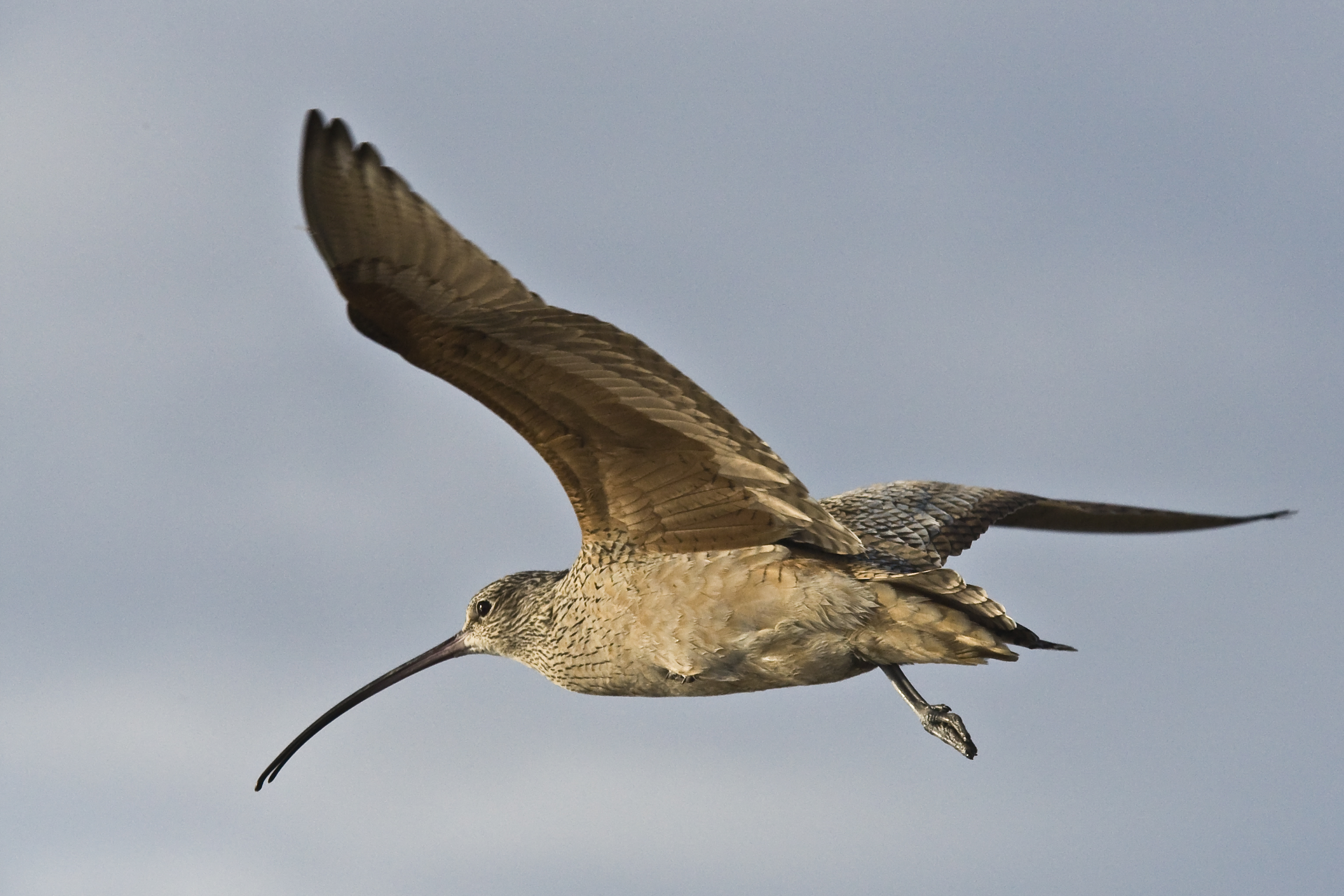 Long-billed Curlew (Numenius americanus), Morro Strand State Beach, Morro Bay, CA, 31 jan 2008 31jan2008 - Photo by Michael "Mike" L. Baird Canon 1D Mark III w/ 100-400mm IS lens with 1.4X II TE (center-point auto-focus) and circular polarizer, handheld.